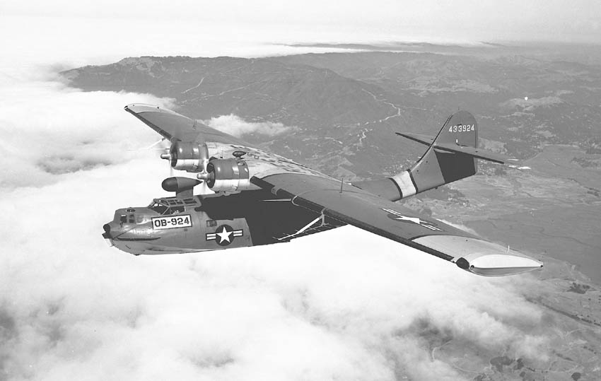 OA-10Aflight48